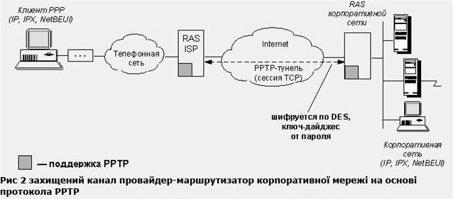 meregi